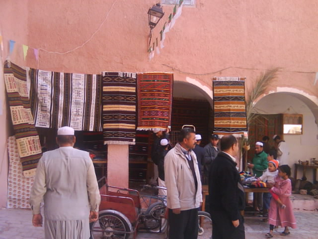 Ce sont des anciens outils utilisés dans notre ville Berriane This is an image with the theme "Play" from: Algeria